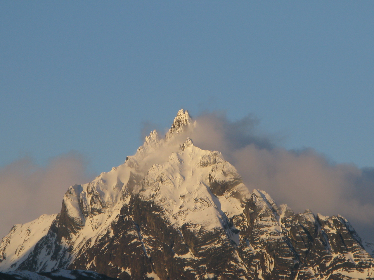 Monte Olivia, Ushuaia, 1470 m